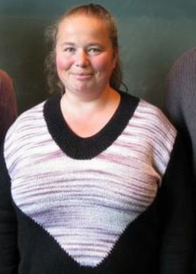 from left: Artur Avila, Svetlana Jitomirskaya, David Damanik, Oberwolfach 2012